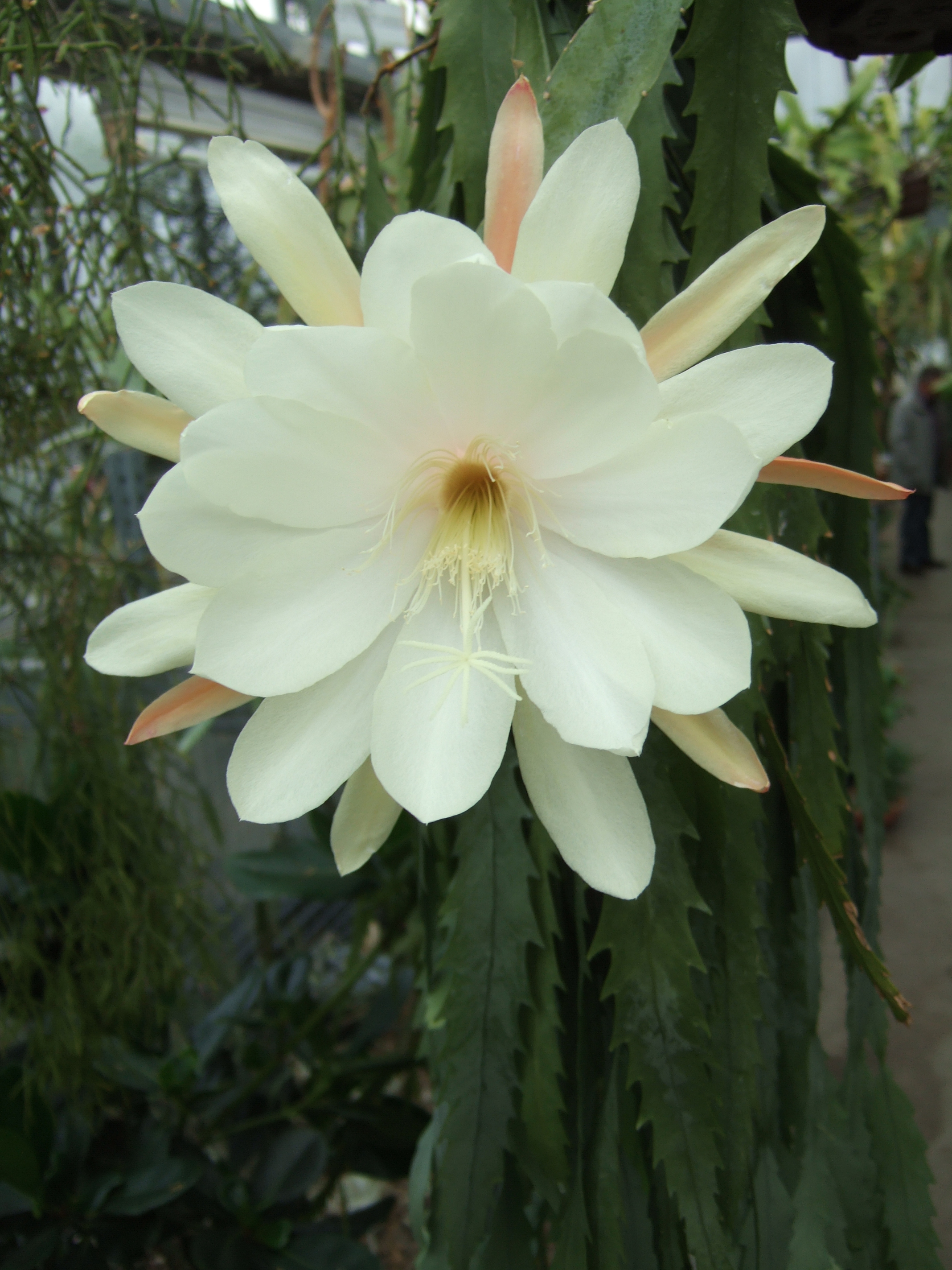 Stems of Lepismium houlletianum, flower of Epiphyllum crenatum